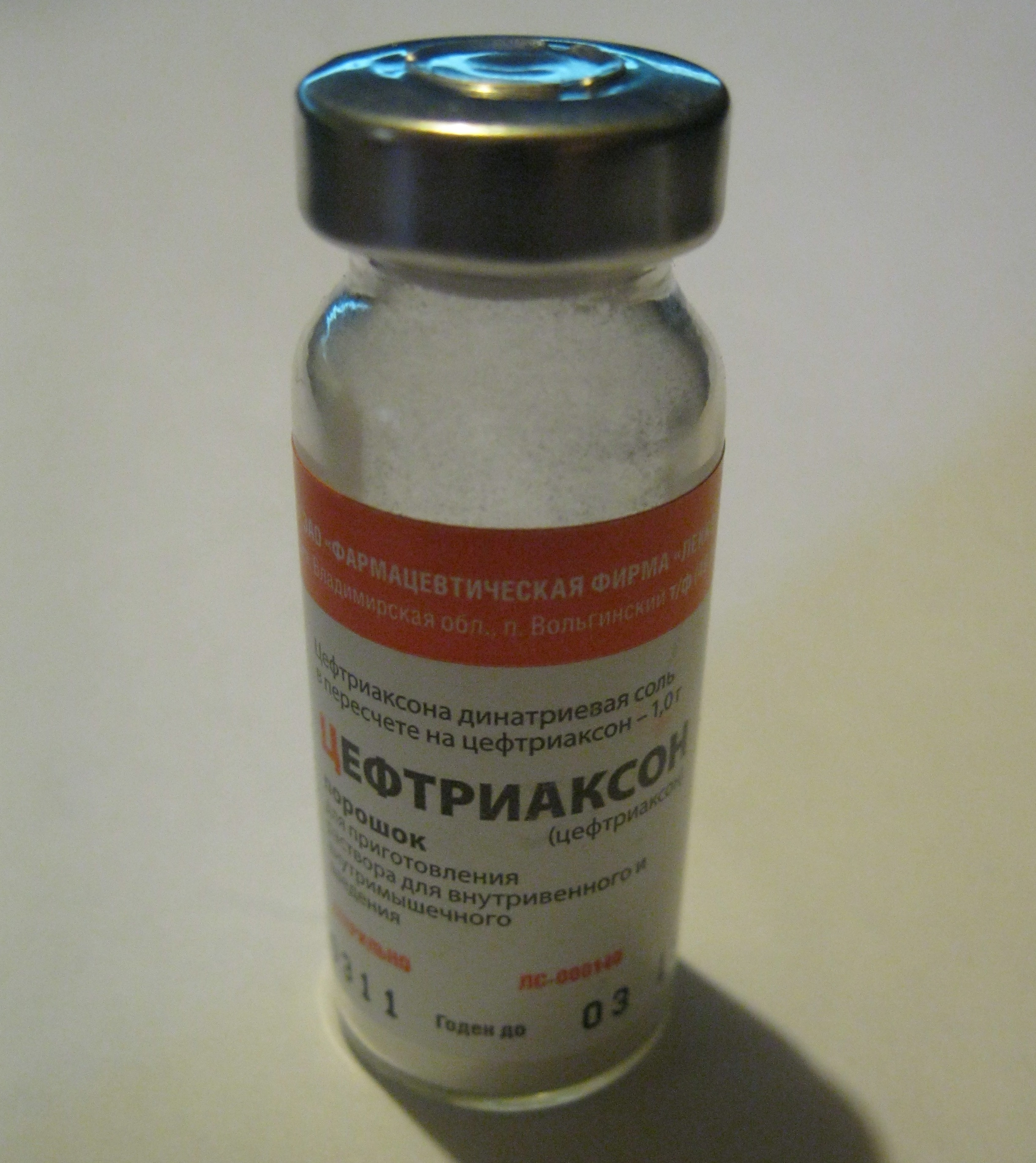 Ceftriaxone